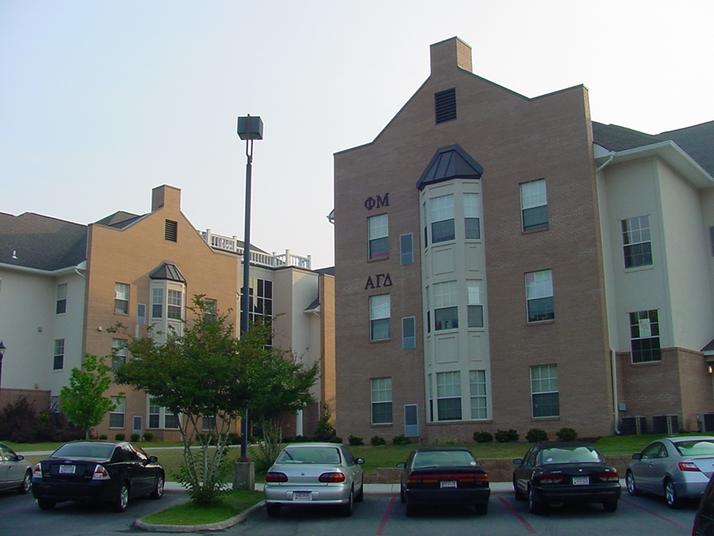 UNA's Panhellenic Residence, taken by me on the University of North Alabama campus, May 28, 2007.